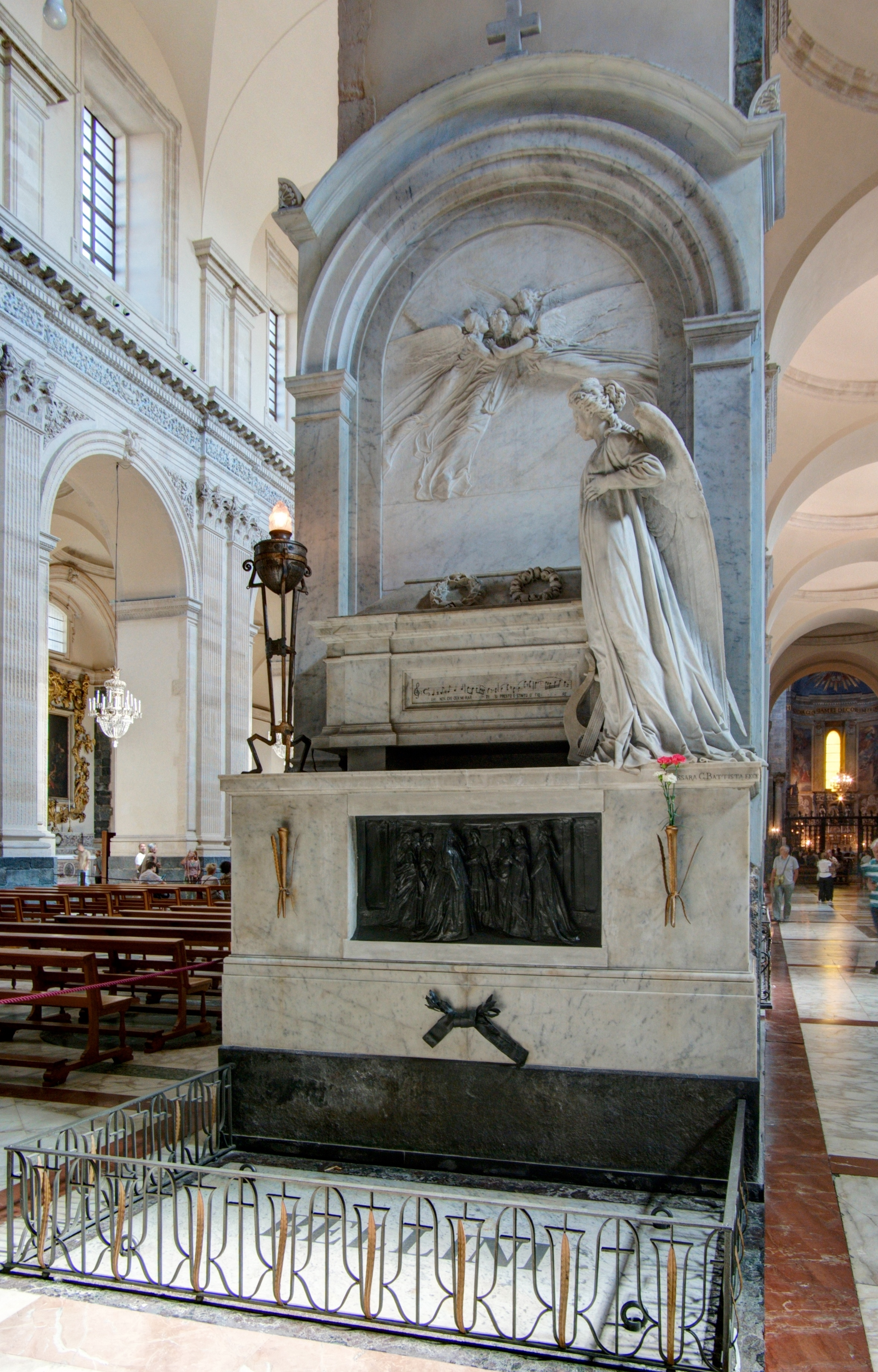 Italy, Sicily, Catanaia, cathedral Sant' Agata